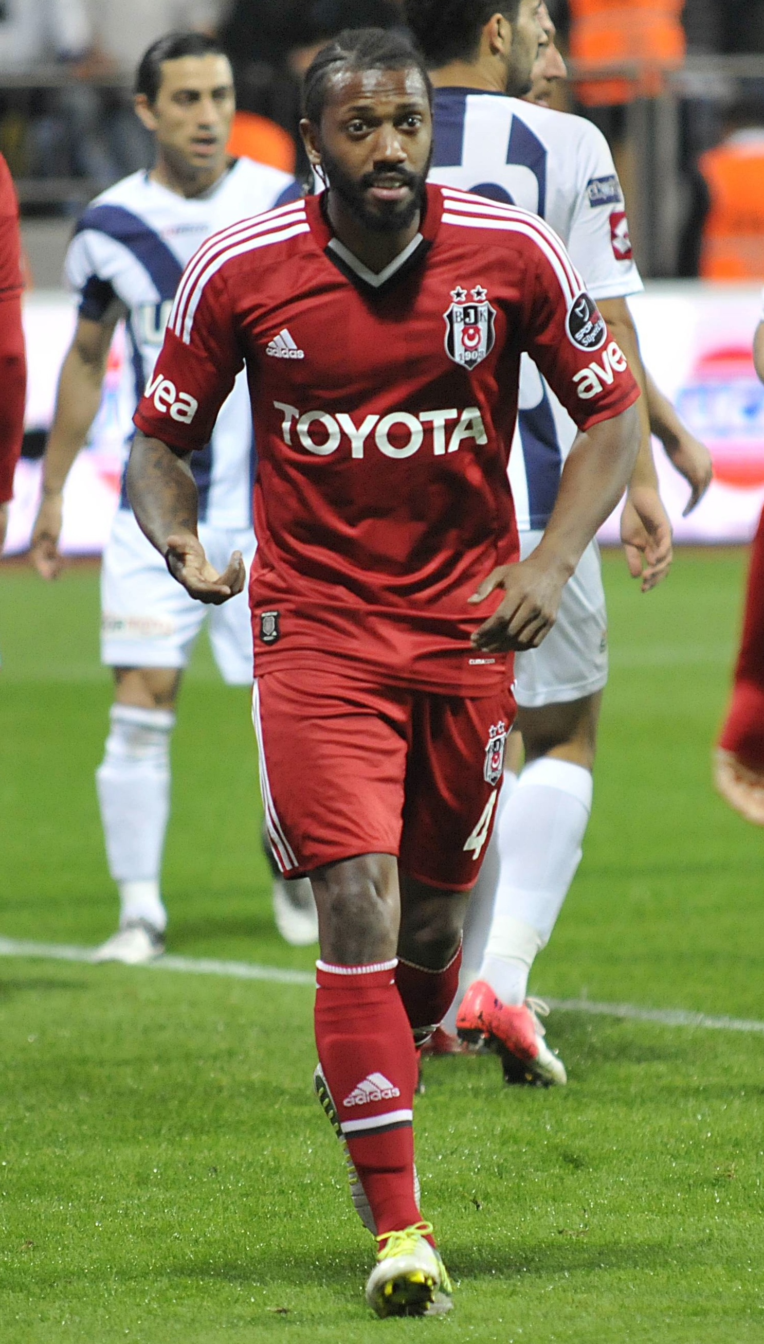 Ferandes Kasımpaşa mücadelesinde. Photo : Murat Özgen